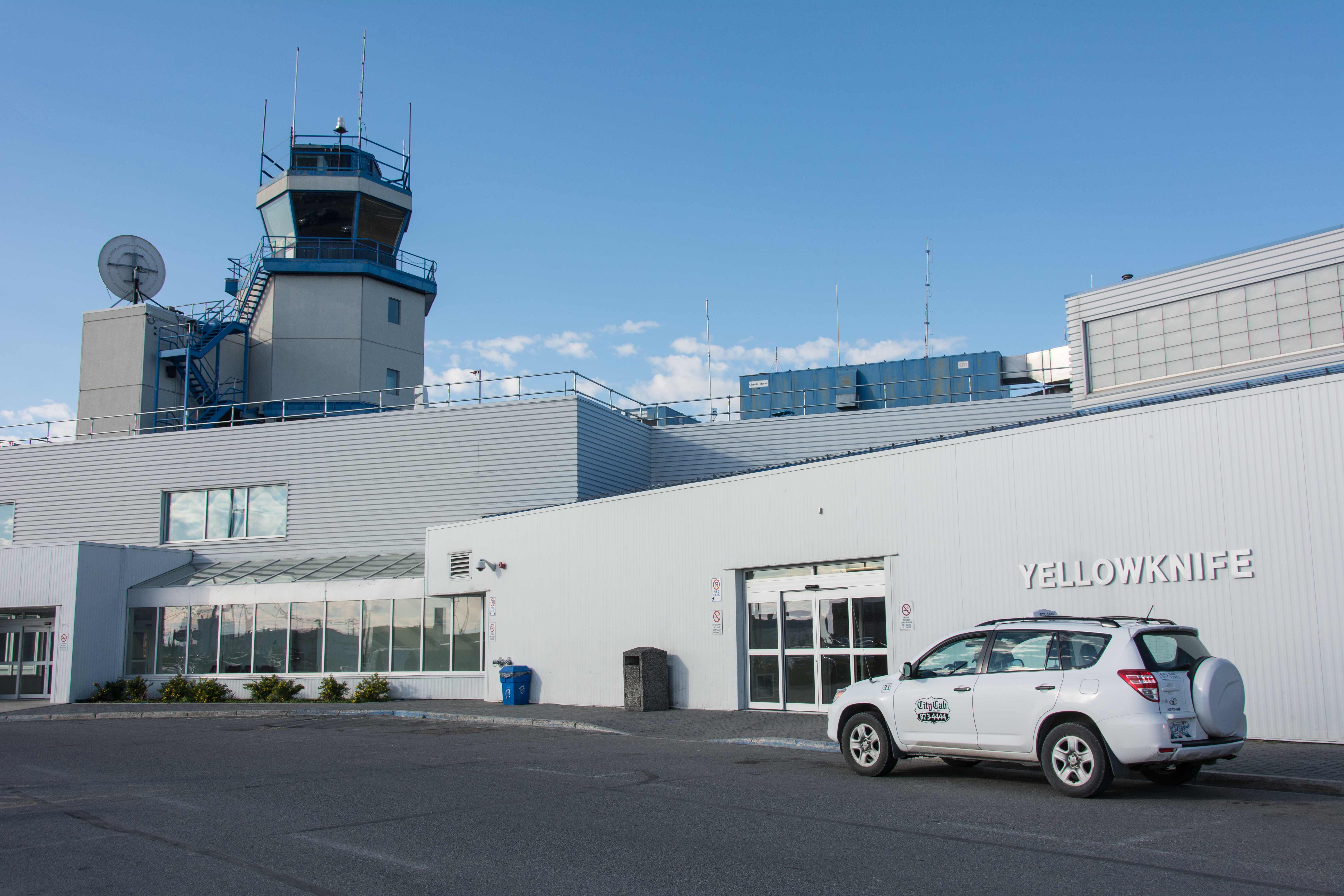 Terminal at Yellowknife Airport (YZF), taken on September 6, 2015.